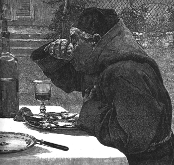 Drawing "La Capucin Gourmand"